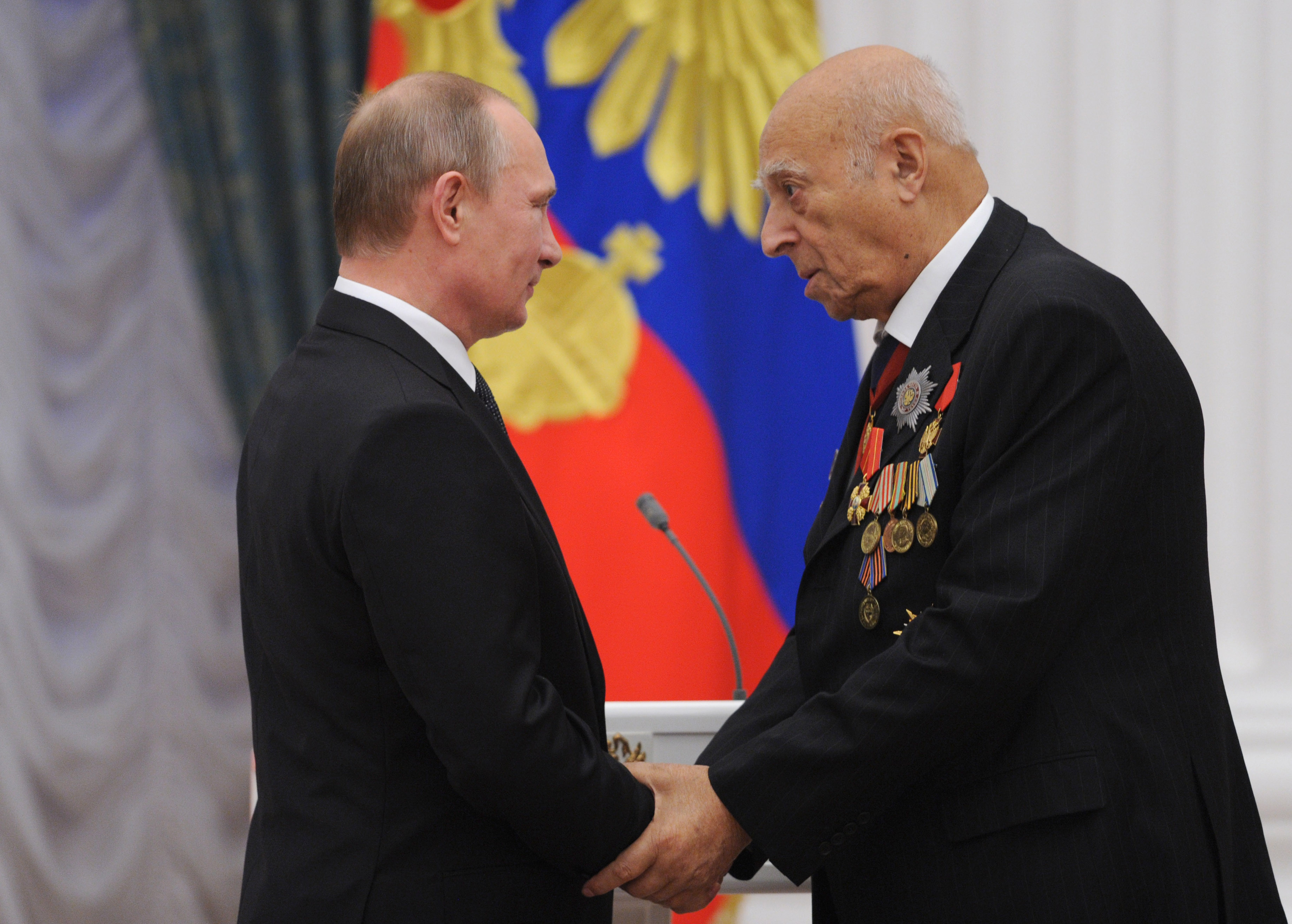 Vladimir Abramovich Etush